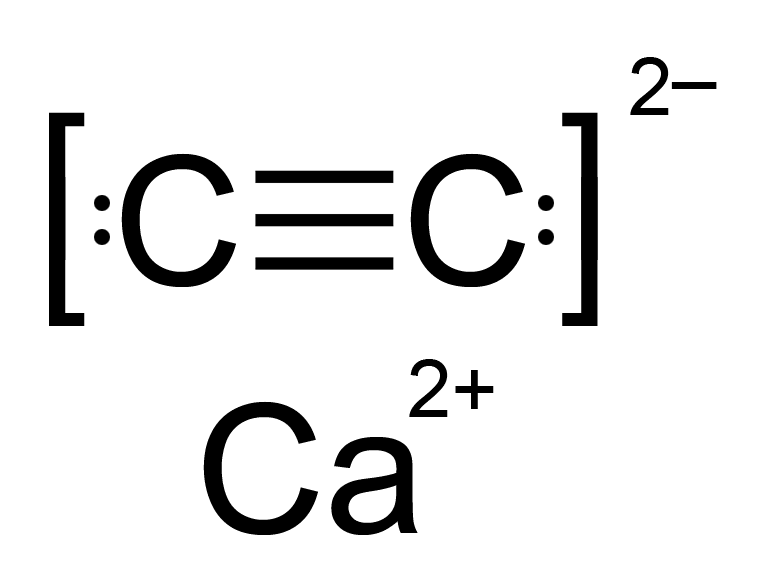 Chemical formula of calcium carbide.